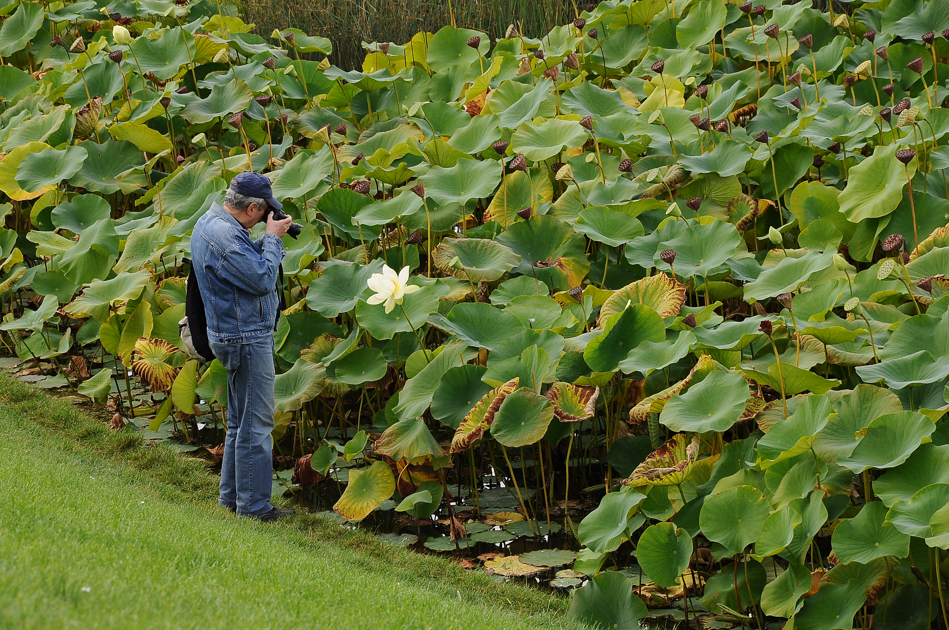 The shot of the last flower of lotus (Nelumbo lutea) in the garden Parc Floral de Paris in Vincennes, France.